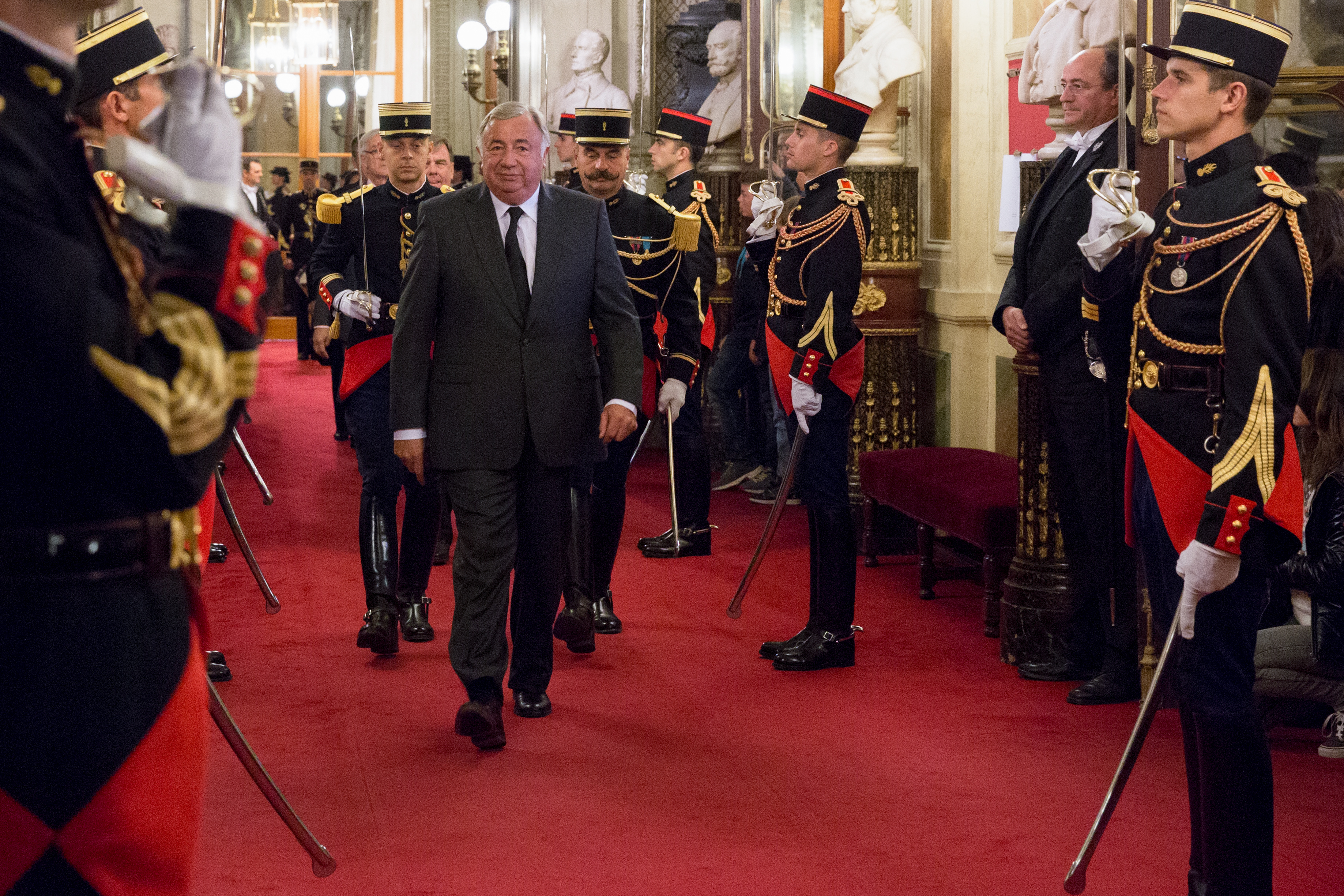 M. Gérard Larcher, entouré des Gardes républicains. Ouverture de séance au Sénat - Paris - France